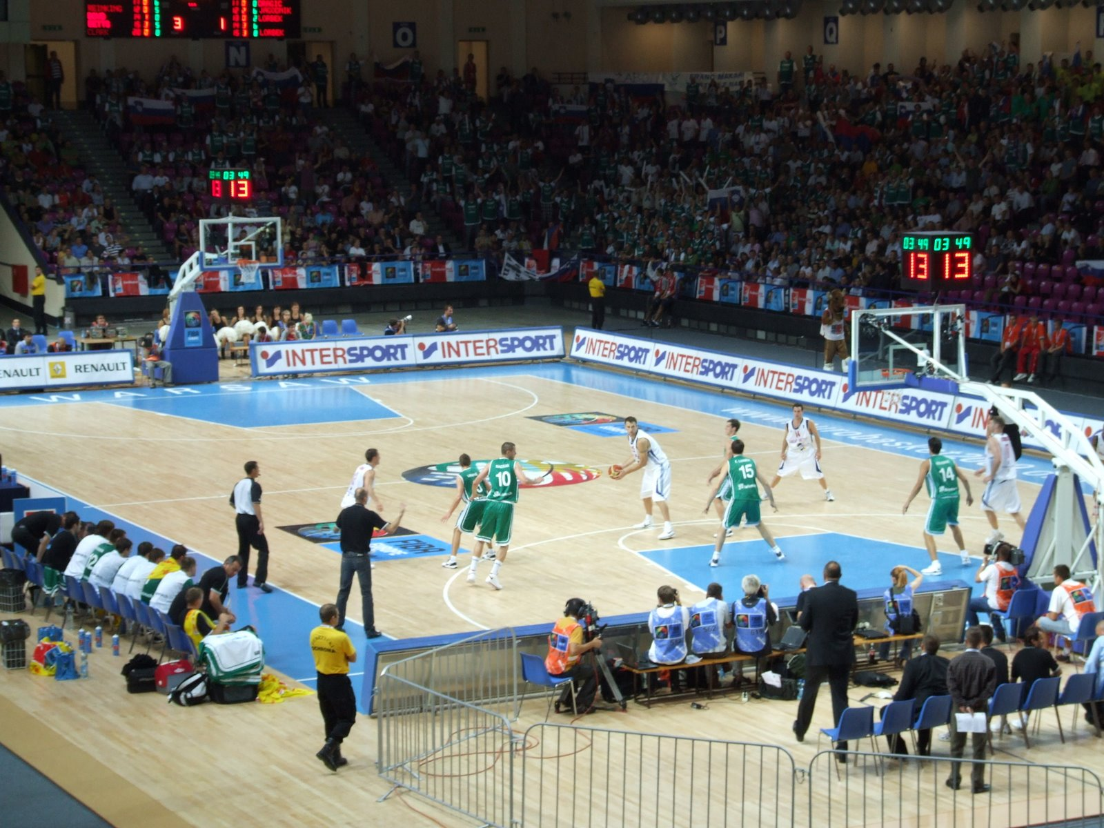 Slovenia vs. Great Britain at EuroBasket 2009.